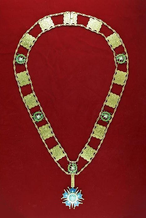 Collar of the Order of the Quetzal (Guatemala)